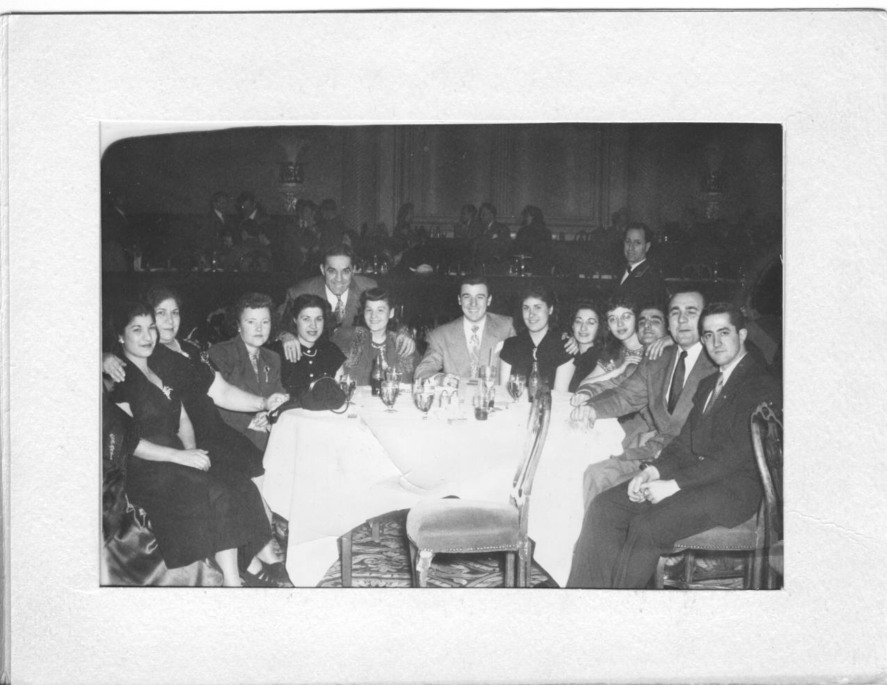 Image of photograph taken at the Statler Operated Hotel Pennsylvania in New York City. The fifth person from the left is Frankie Carle. The first person on the left is Nicolina (Nikki) Vaccaro Grazioli Suarez (d. Sept 2010). The ninth person from the left is Antoinette Conchetta Vaccaro Lazzari (d.Sept 2007). The eleventh person from the left is Salvatore (Sam) Vaccaro (d.Jan 2002). Nikki, Ann and Sam are first cousins to Frankie Carle.